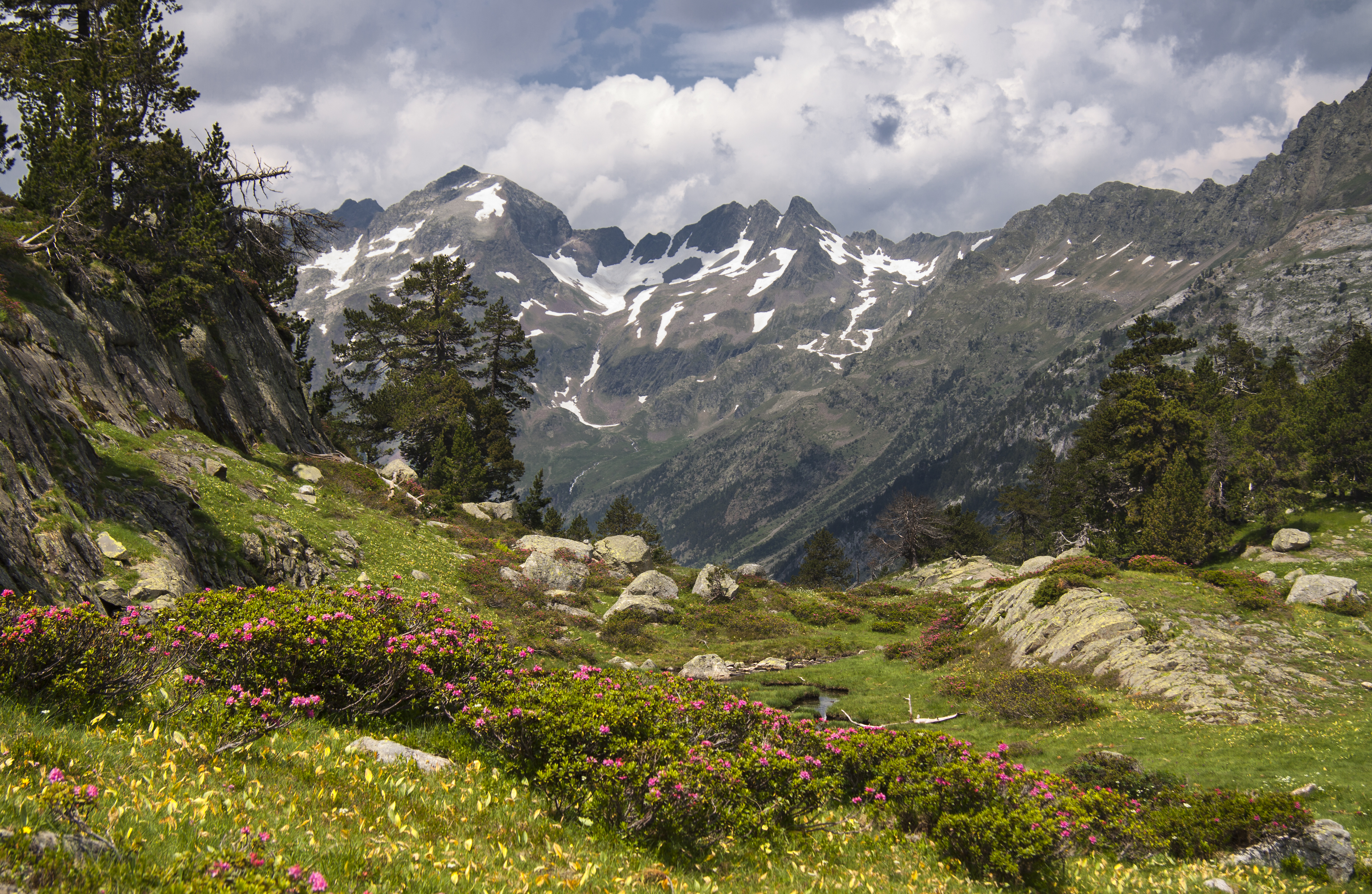 Posets-Maladeta Natural Park, province of Huesca, Spain. This is a photography of a Special Area of Conservation in Spain with the ID: ES0000149. Natura2000 entry, EEA entry